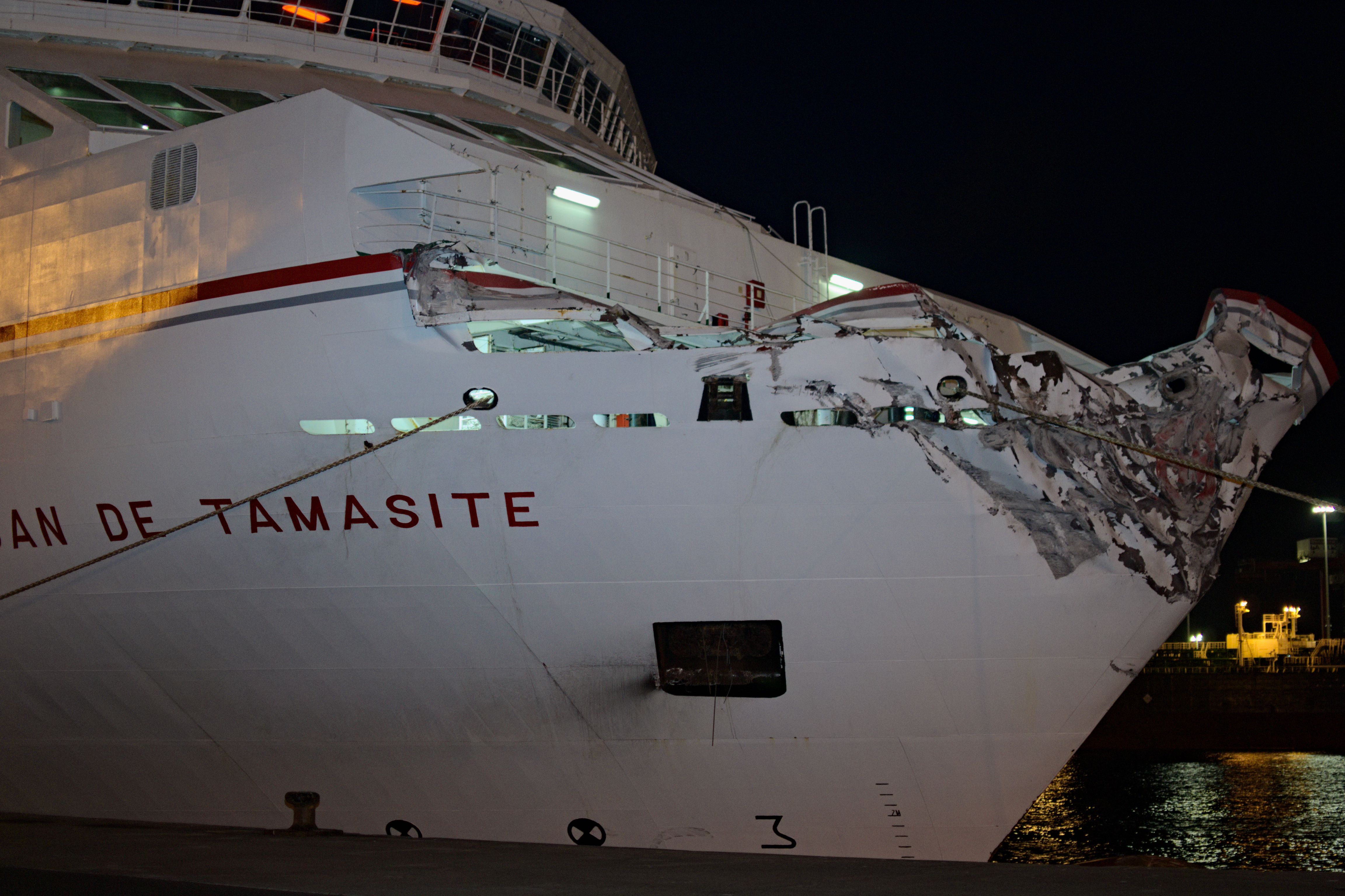 Volcán de Tamasite (launched in 2014) being repaired in the Cambullonero dock of the [:en:Port of Las Palmas|Port of Las Palmas (Canary Islands, Spain), after the collision against the back of the dock of La Esfinge happened the 21, April of 2017.